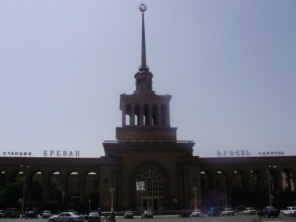 The building of the railway station in Yerevan, Armenia. View from the David of Sasun square.